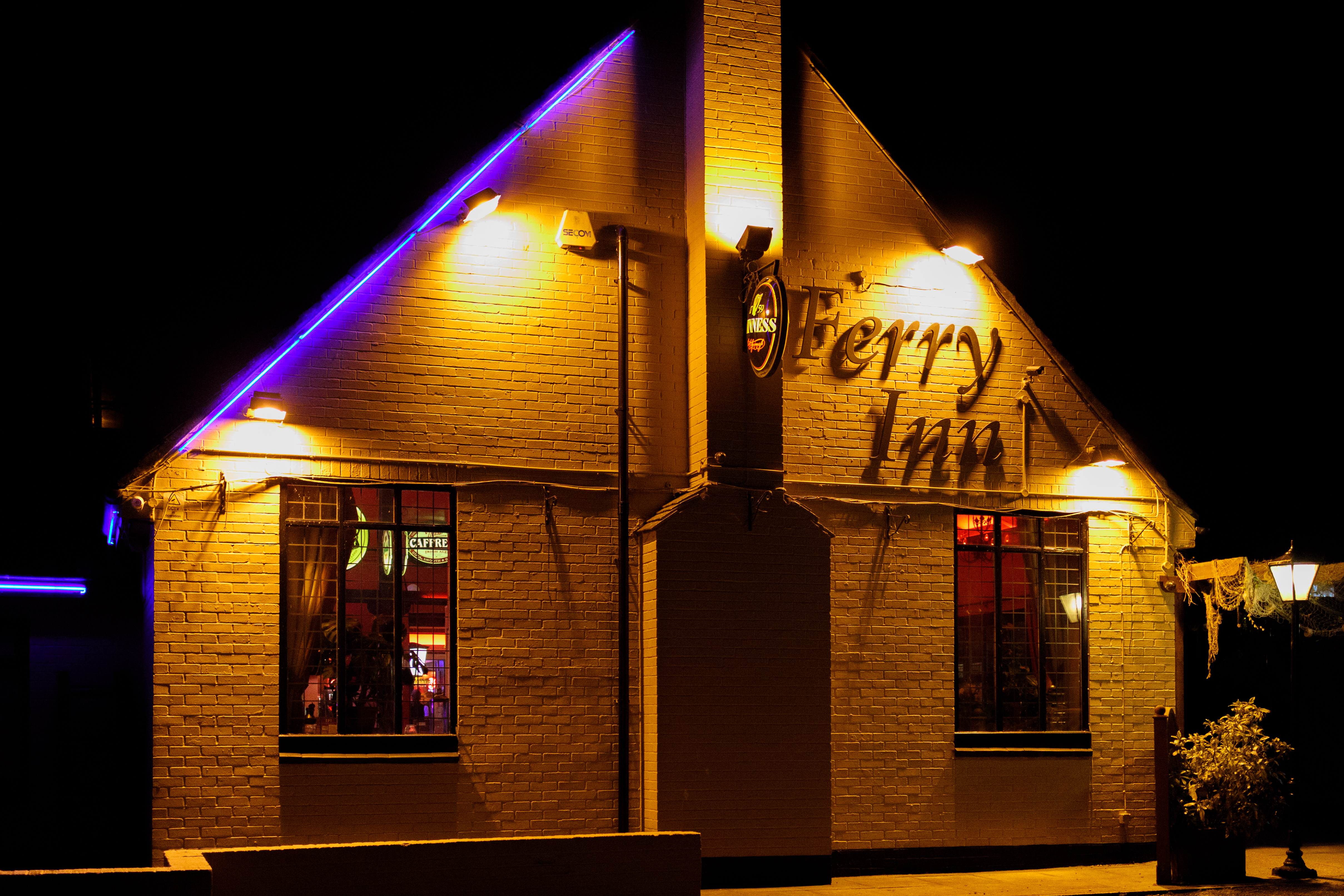 The Ferry Inn Horning